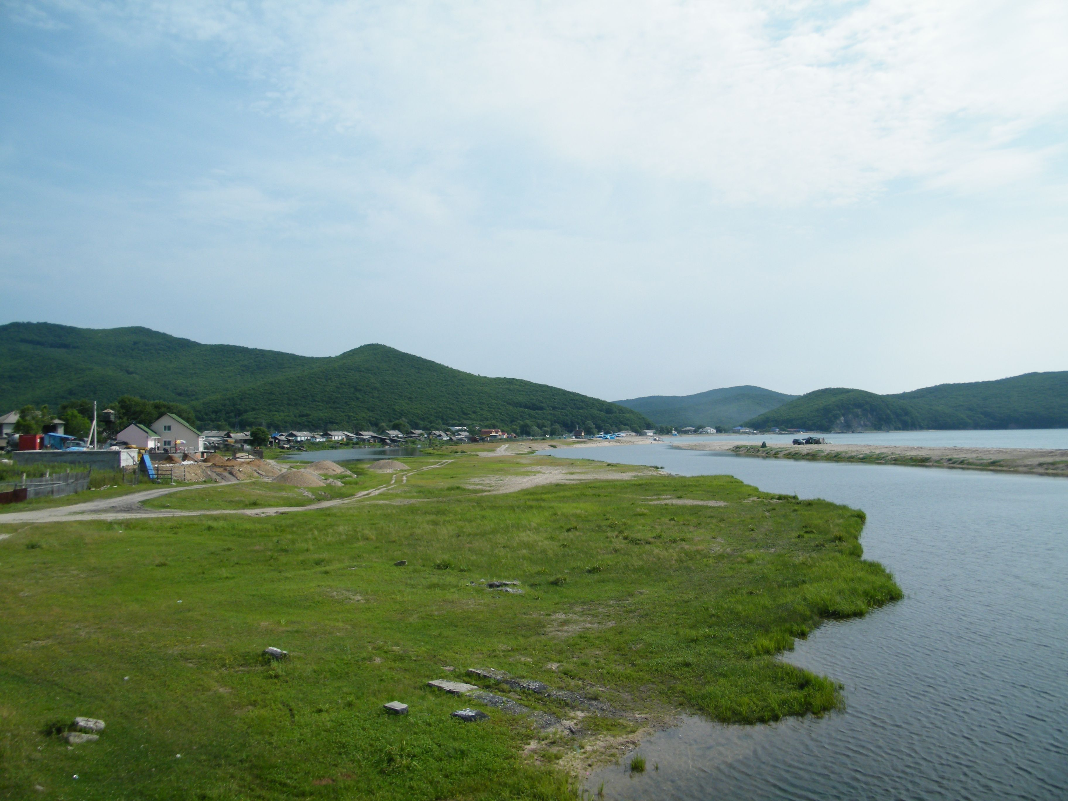 Село Веселый Яр Ольгинский район